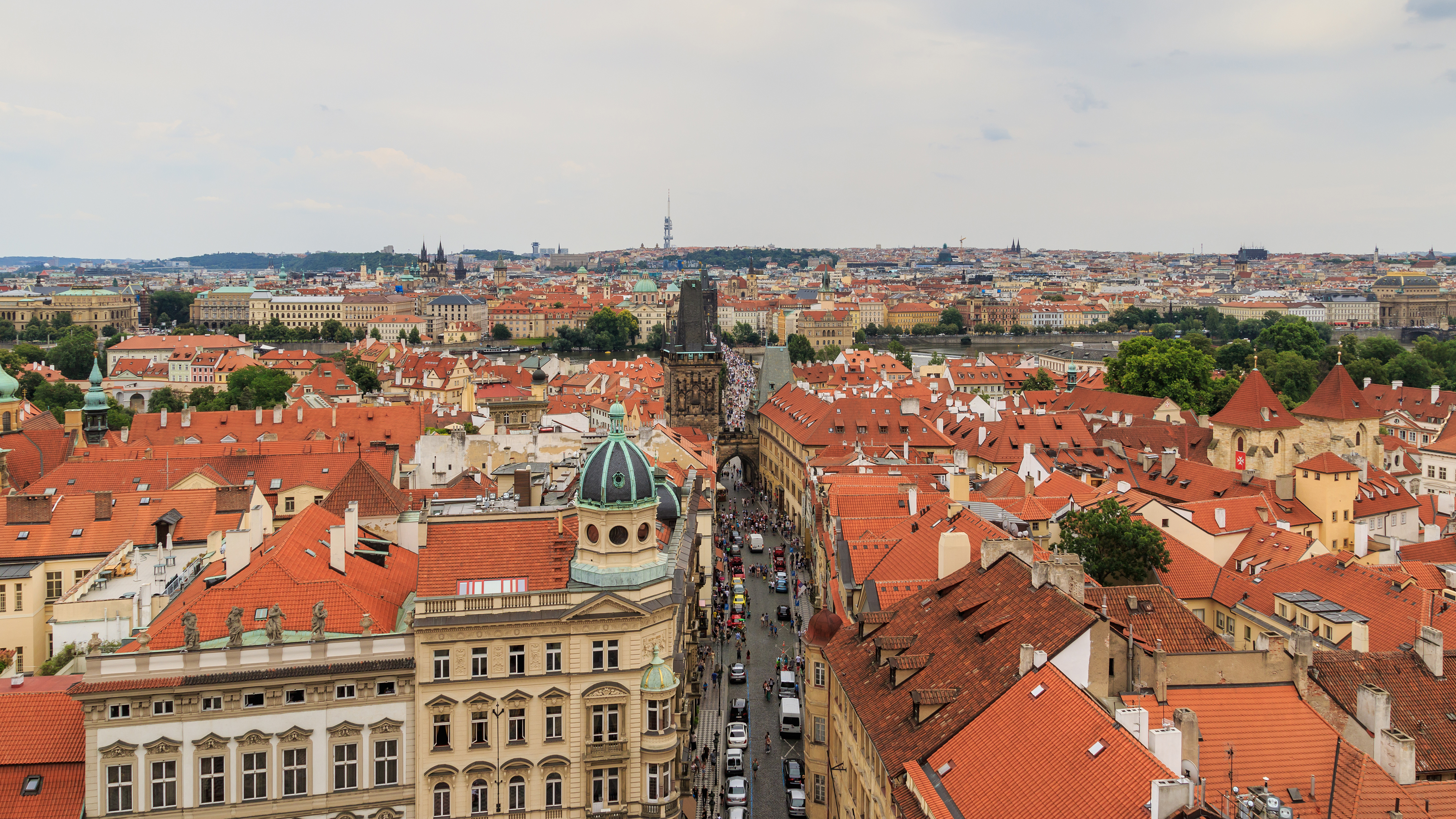 View from St.Nicholas Church in Lesser Town in Prague (Czech Republic)